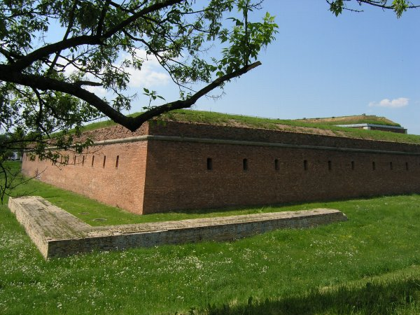 Defensive walls in Zamość, bastion VII